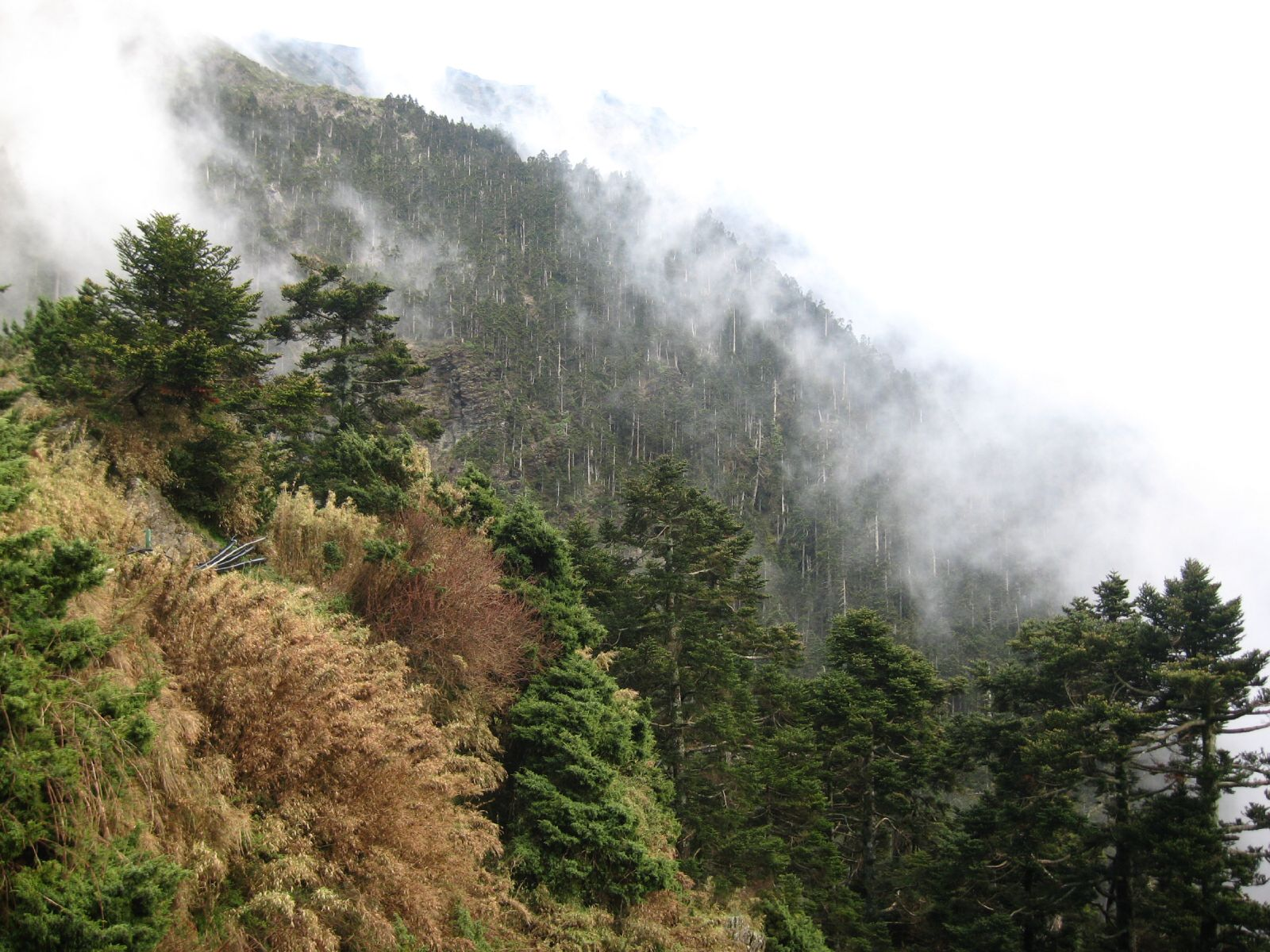 Abies kawakamii (trees), Juniperus morrisonicola (green shrubs in foreground), Yushan, Taiwan